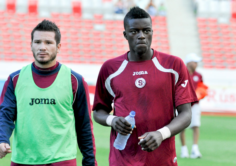 Jordan Smith and Jorge Castro, both players of Deportivo Saprissa in 2012.